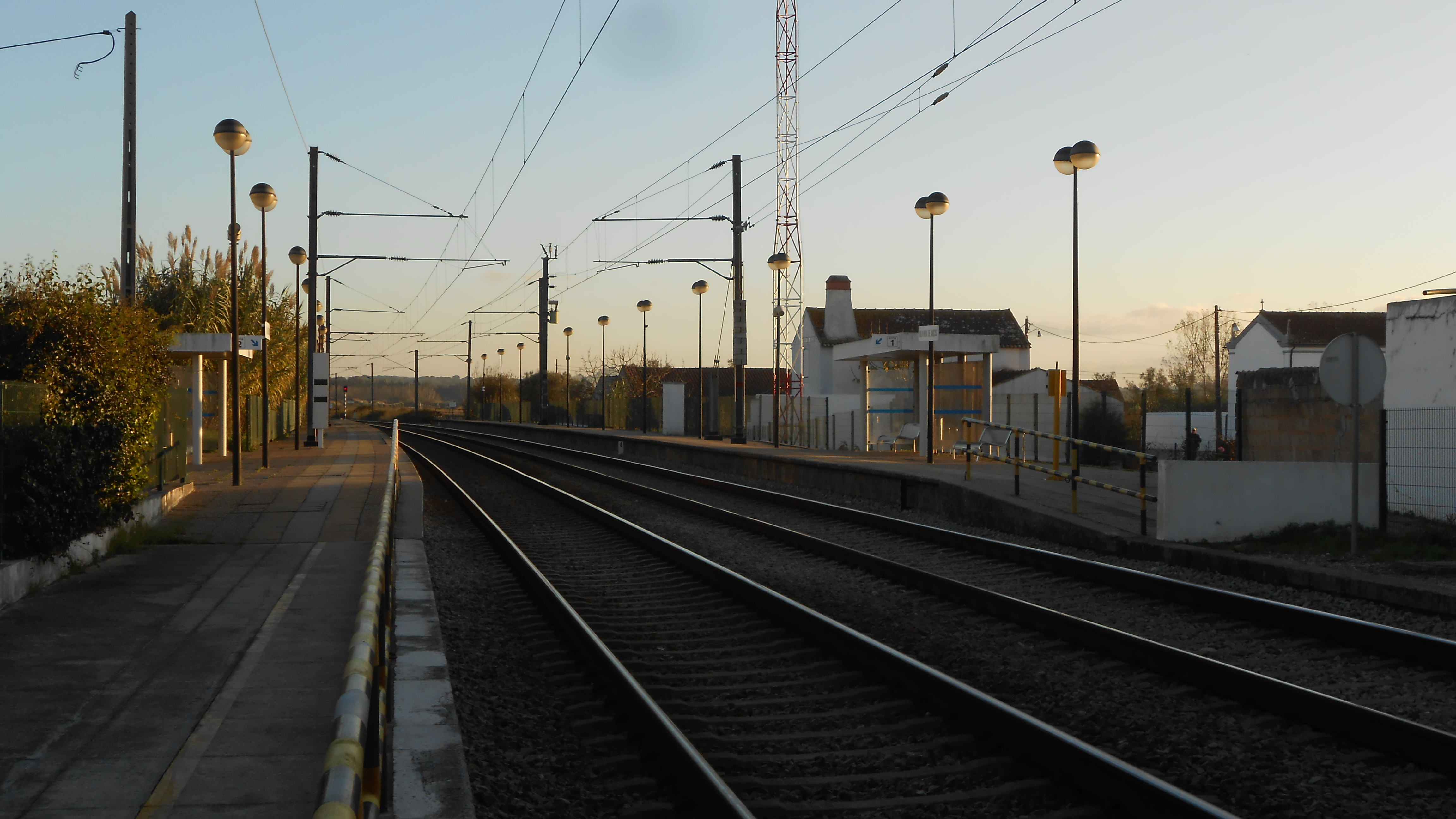 The Vila Nova de Anços halt at the portuguese Linha do Norte railway.